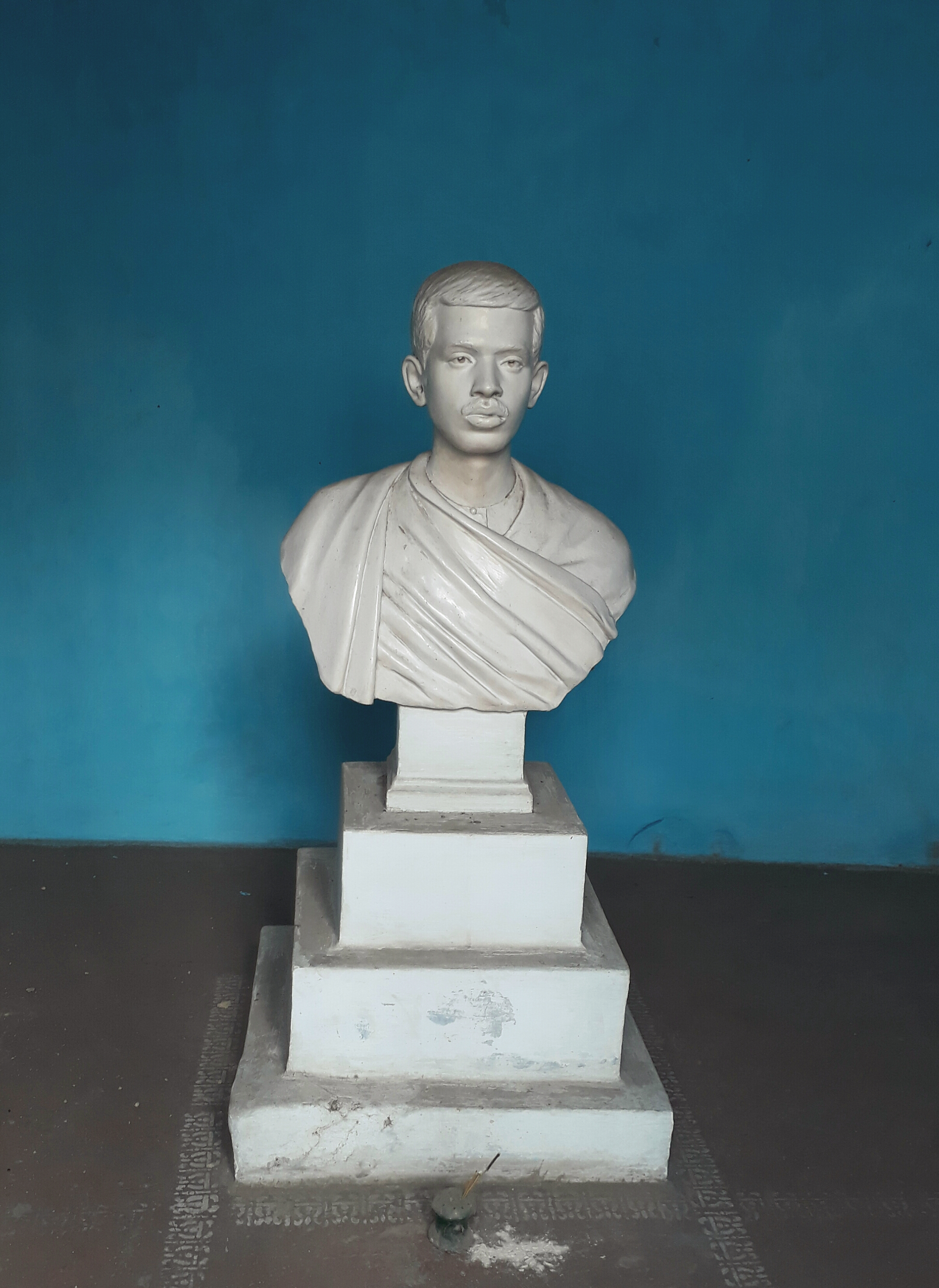 Statue of Kanailal Dutta in Chandannagar, Hooghly